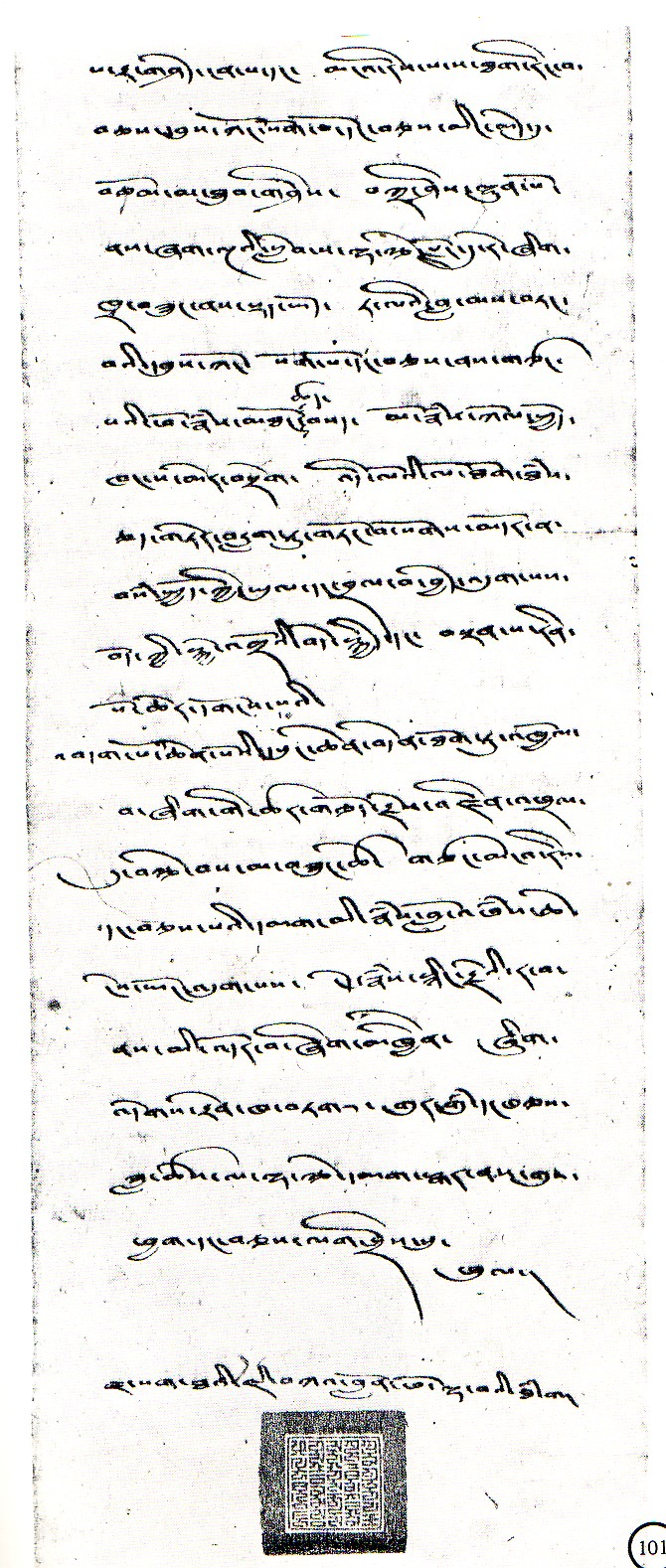 Letter of Pholhane to Chinese emperor 1727 second part